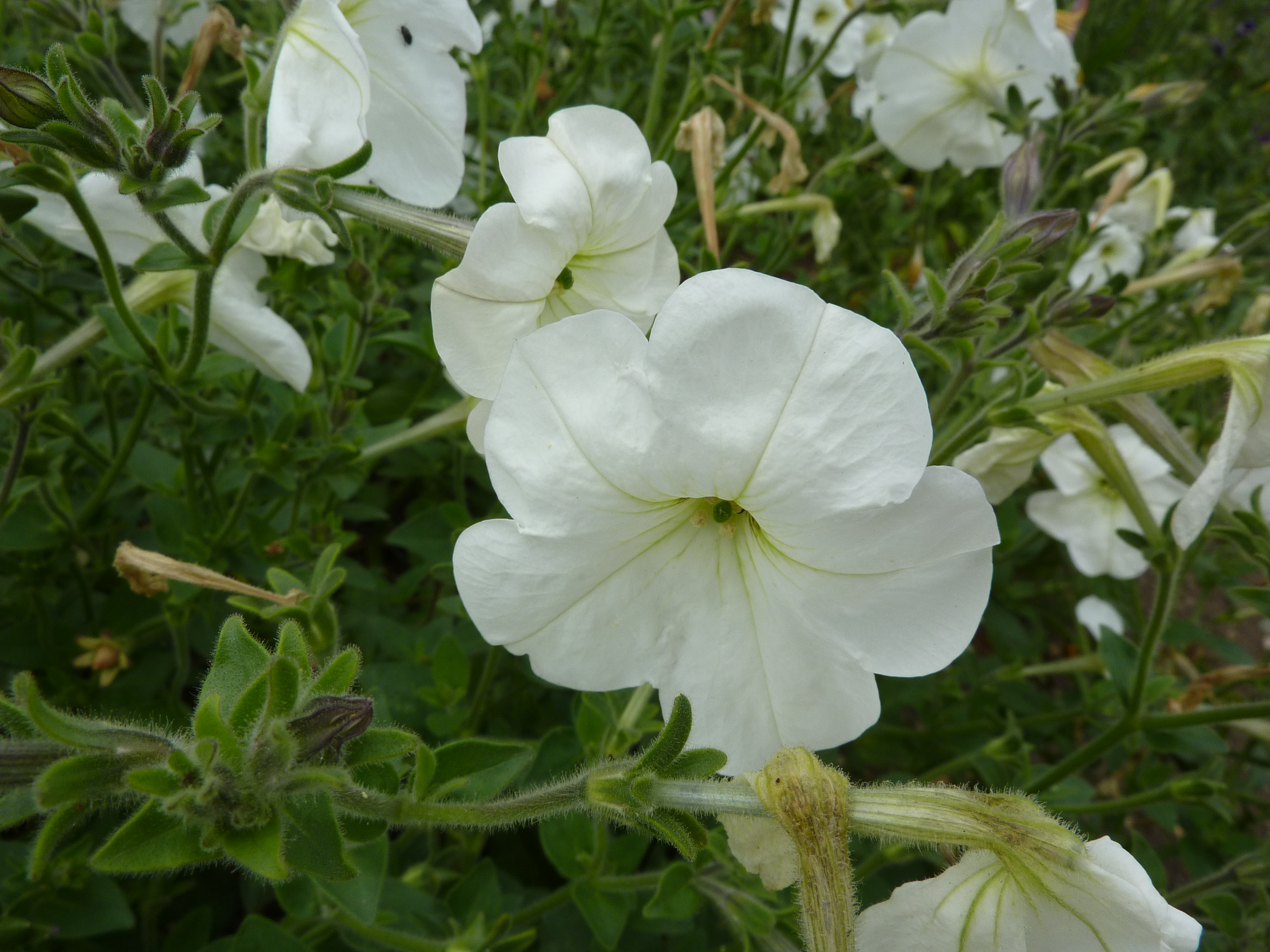 Taken in the Cambridge University Botanic Garden